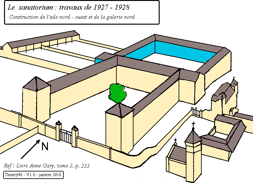 Map of the sanatorium (1928) in town Montfaucon in Lot, France.